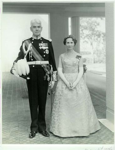 William Morrison, 1st Viscount Dunrossil, and wife